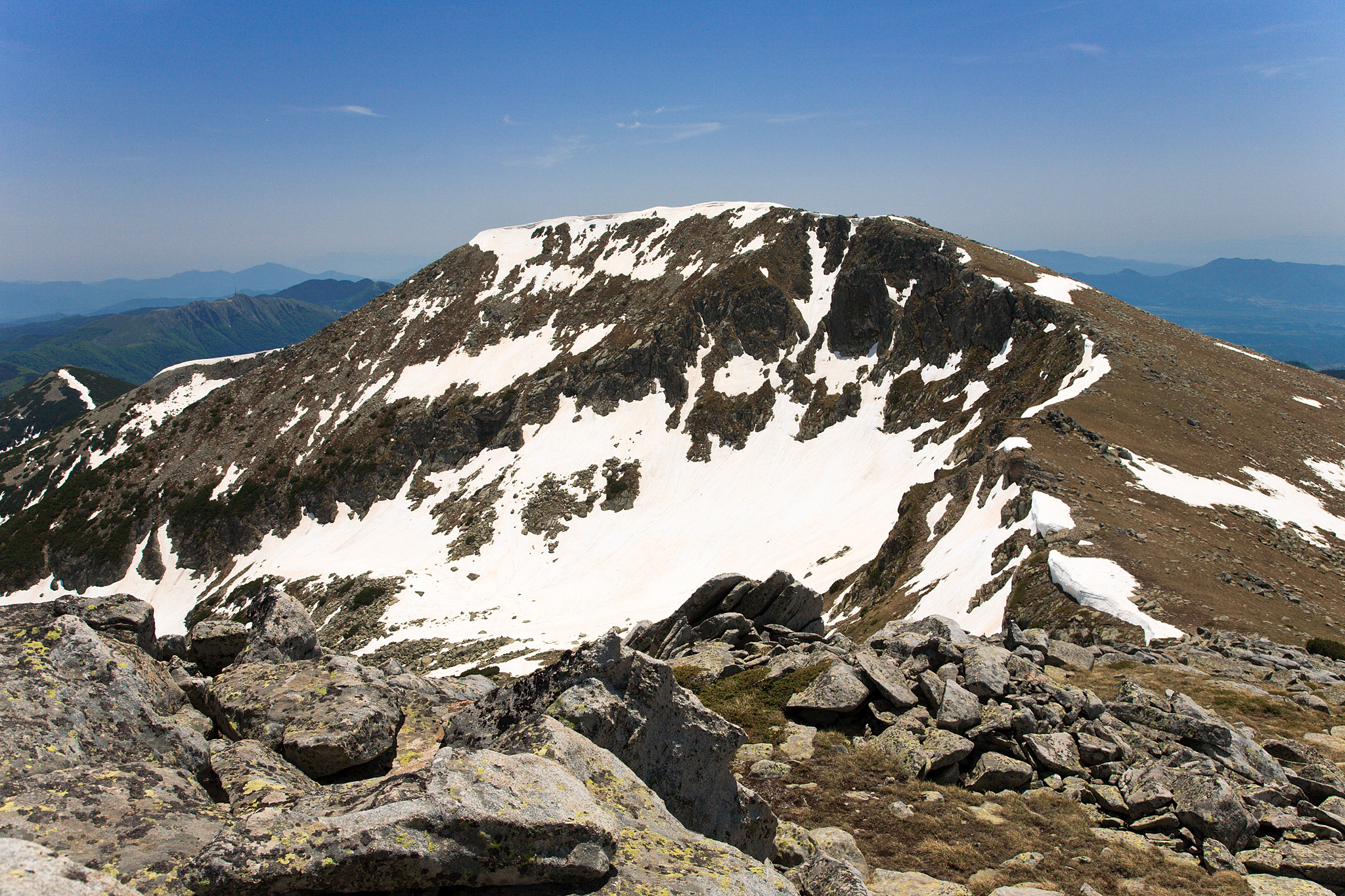 Hambartash peak in Pirin mountains, Bulgaria